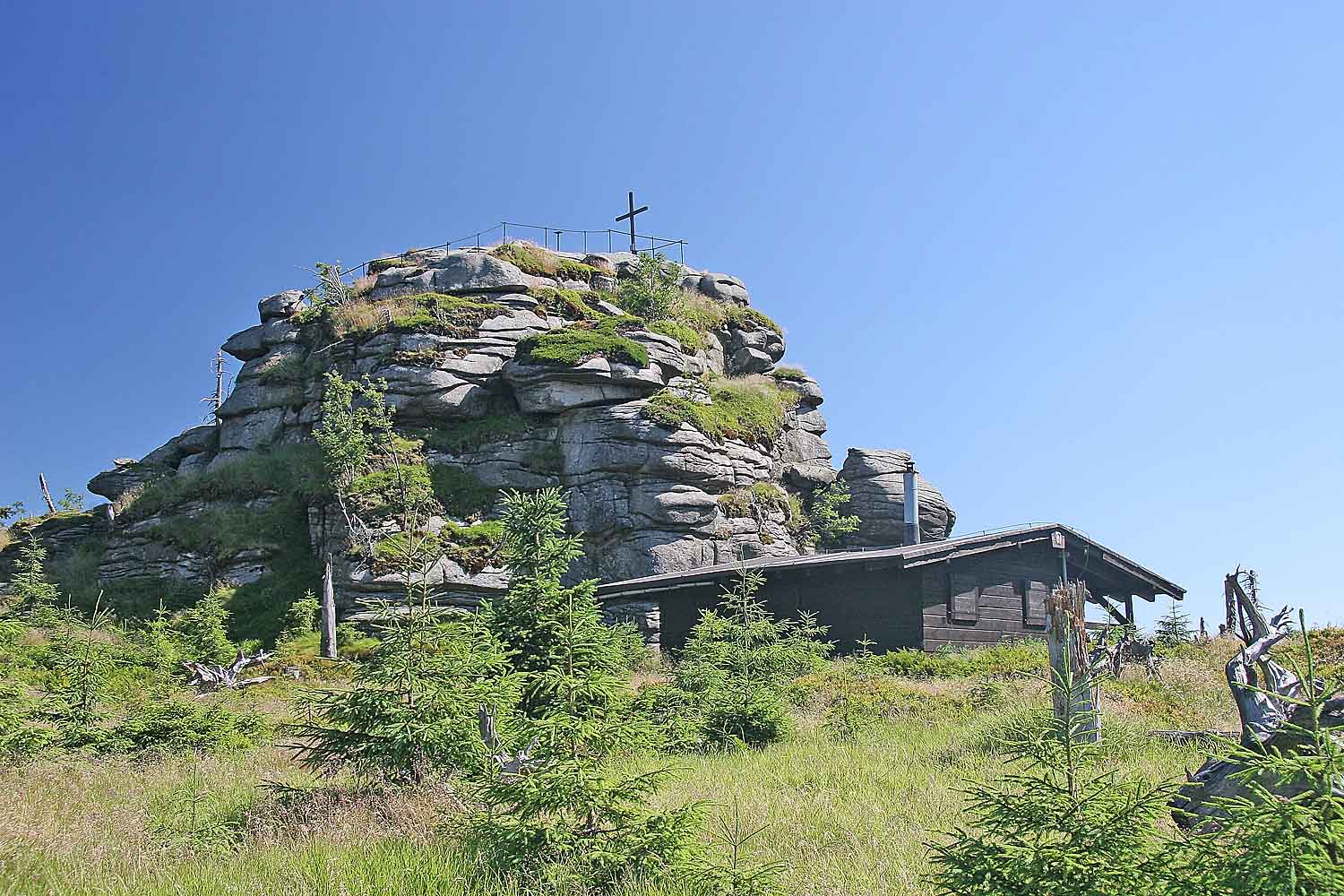 Jizera, Jizera Mountains, district Liberec, Czech Republic